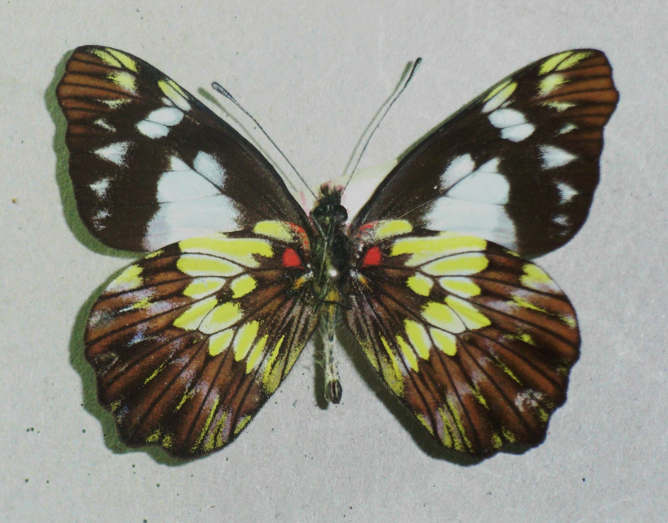 Leodonta dysoni:Pierinae:Pieridae